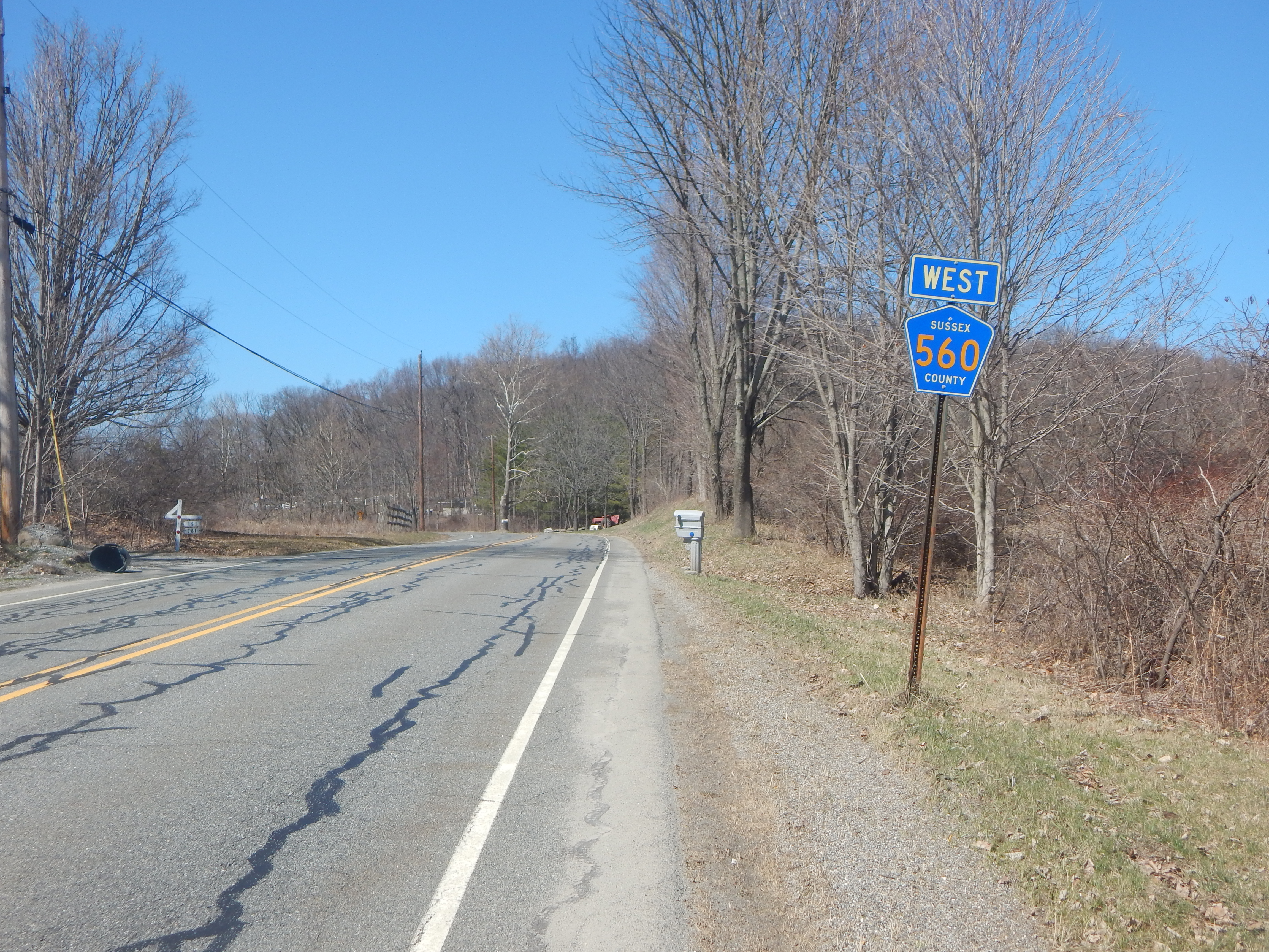 County Route 560 in Sandyston Township, New Jersey.